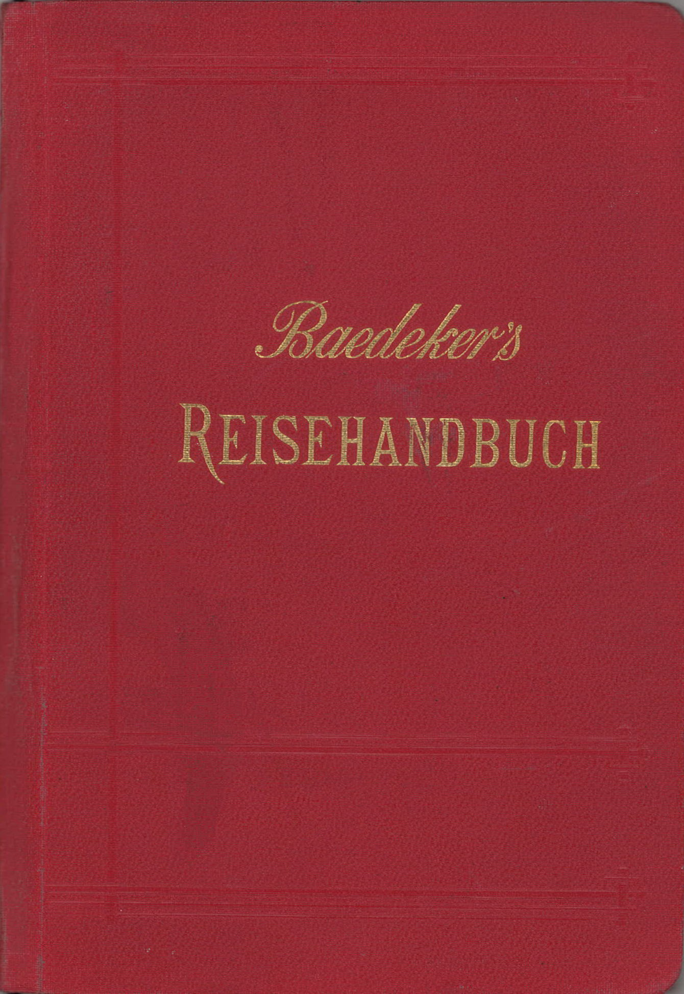 Baedeker folder, neutral inscription, before 1914